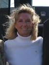 Congressman and Mrs. Johnson pose with State Representative Jodie Laubenberg and Mayor Mike Felix at Sachse Fall Fest.